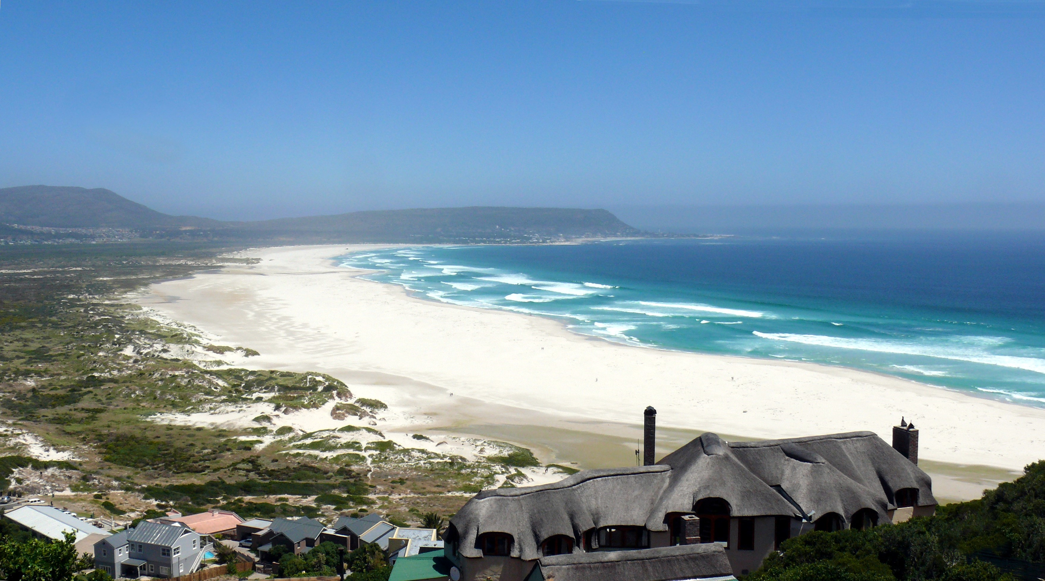 Noordhoek Beach from Chapman's Peak with Kommetjie in the distance